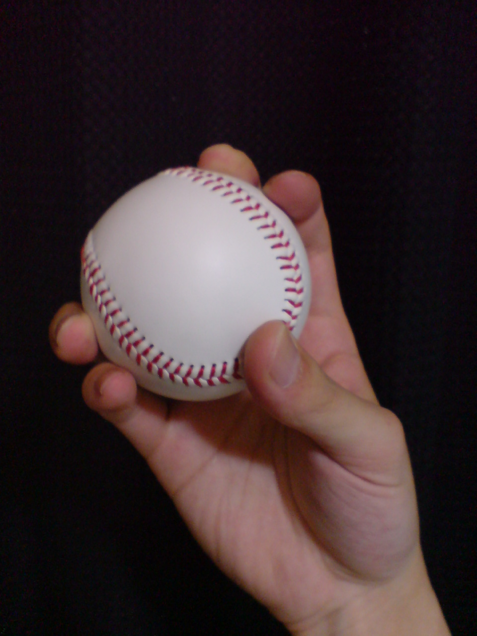 Sinker